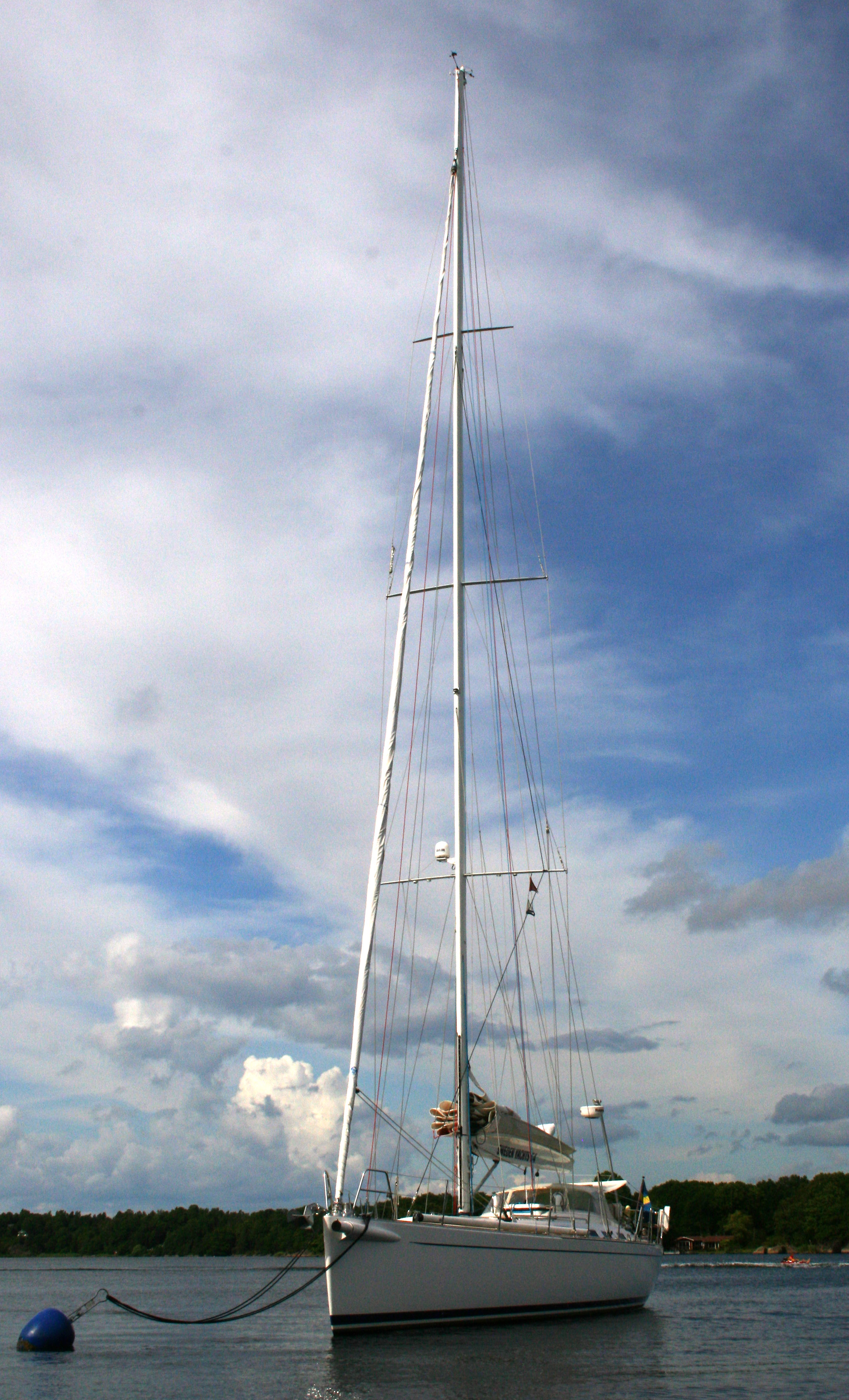 A Sweden Yachts 54 sailboat